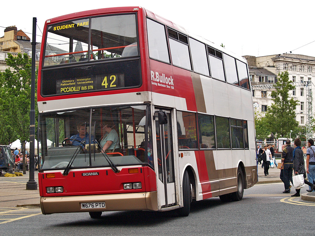 R. Bullock and Company (Transport) Limited W676 PTD, a Scania N113DRB built 2000 with an East Lancashire Cityzen H51/31F body in Piccadilly Gardens bus station, Manchester with a Manchester Piccadilly Gardens to East Didsbury (Parrs Wood) via Wilmslow Road 42 service. Friday 25th July 2008.